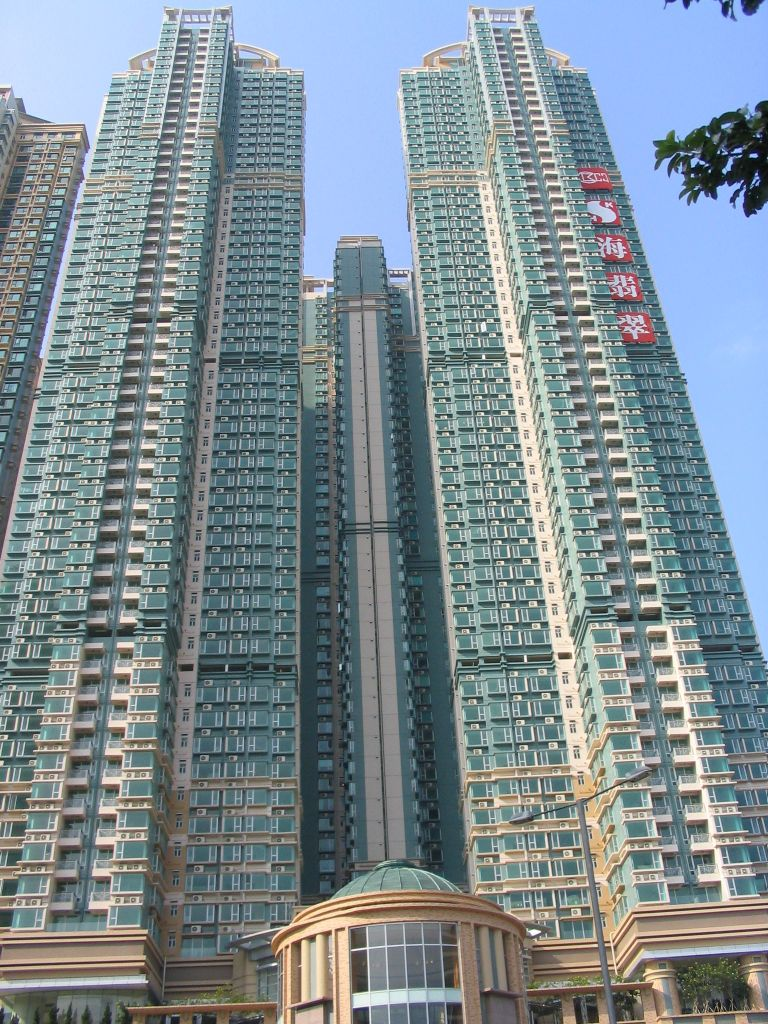 宇晴軒 The Pacifica